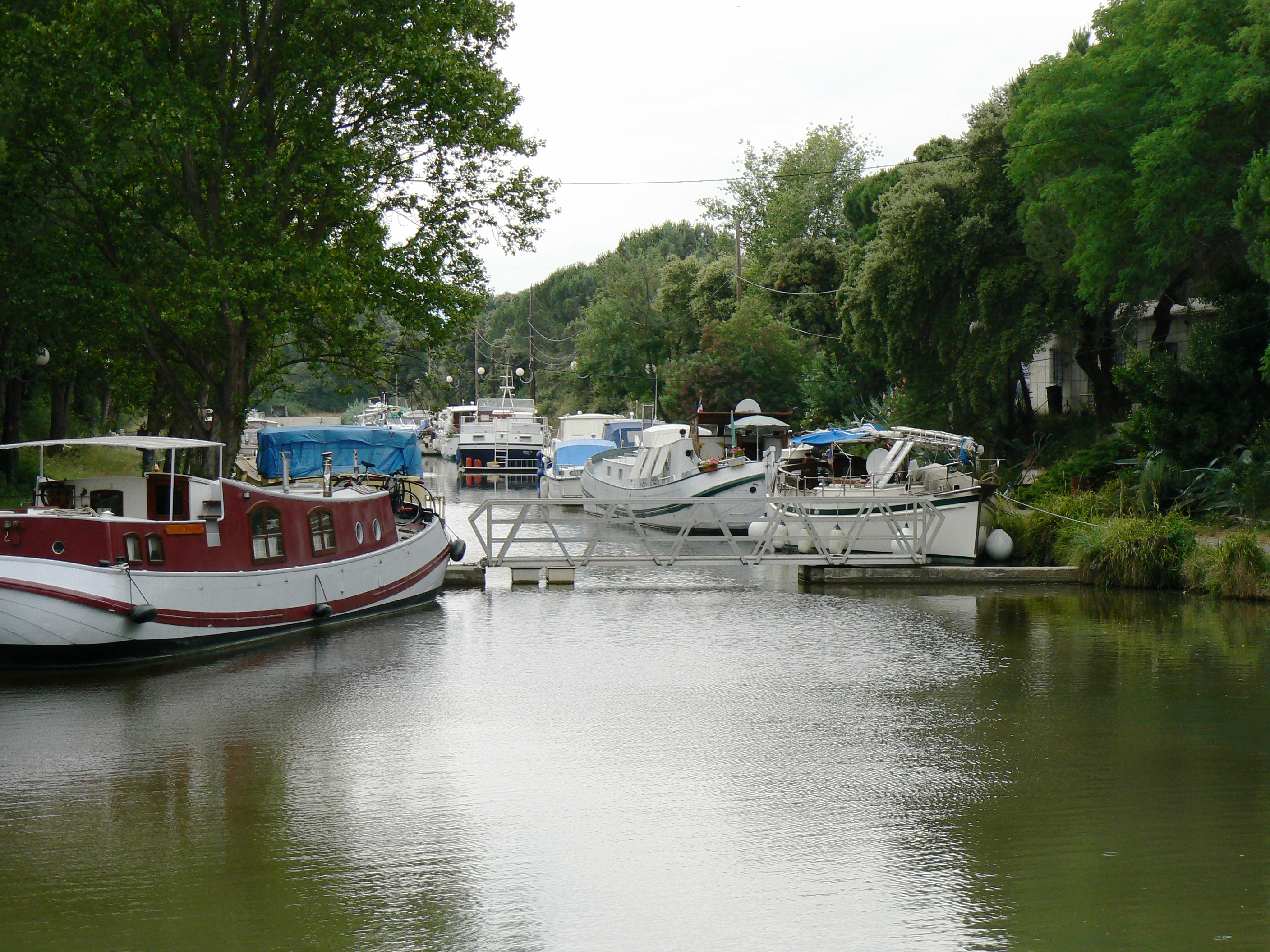 Marina_after_Cesse_Aqueduct